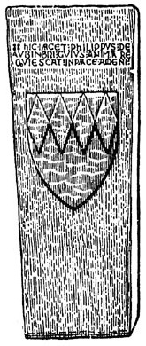 Ledger stone of crusader Philip d'Aubigny (c.a. 1166 – c.a. 1236) at the Church of the Holy Sepulchre in Jerusalem, which was moved and protected with a grille in 1925. (Source:T. Bolen and T. Powers, 2009 and Raymond Cohen, Saving the Holy Sepulchre, 2008, p. 25). He was an Anglo-Norman knight, one of 5 sons of Ralph d'Aubigny and Sybil Valoignes whose ancestral home was Saint Aubin-d'Aubigné in Brittany. In England he was lord of the manor of Chewton Mendip, South Petherton, Bampton, Waltham and Ingleby and Keeper of the Channel Islands. The ledger stone is inscribed in Latin Hic jacet Philippus de Aubingni cuius anima requiescat in pace Amen ("Here lies Philip d'Aubigny. May his soul rest in peace. Amen".) and displays his arms: Gules, four fusils conjoined in fess argent. His family was later known in England as "Daubeney". Text from The Status Quo document regarding the holy places (as published by the British) explains how the marker survived the centuries in such good condition: “Thanks to the fact that for a long period it was protected by a stone divan built over it for the use of the Moslem guards, the tombstone is in a tolerably good state of preservation.” In 1925, during the British Mandate over Palestine, an excavation of the grave for purposes of restoration uncovered Sir Philip’s bones as well as tablets inscribed in Latin describing his family tree. Based on these explorations, Sir Ronald Storrs, the military governor of Jerusalem, authenticated the tomb and Philip’s lineage in a 1925 article published in The Times of London. The restoration of the grave was carried out by the British Pro-Jerusalem Society headed by Storrs. At that time the tombstone was re-set slightly below the level of the courtyard pavement but left visible through a protective metal grating. Today the slab lies in exactly the same spot, but hidden from view by a well-worn wooden hatch".